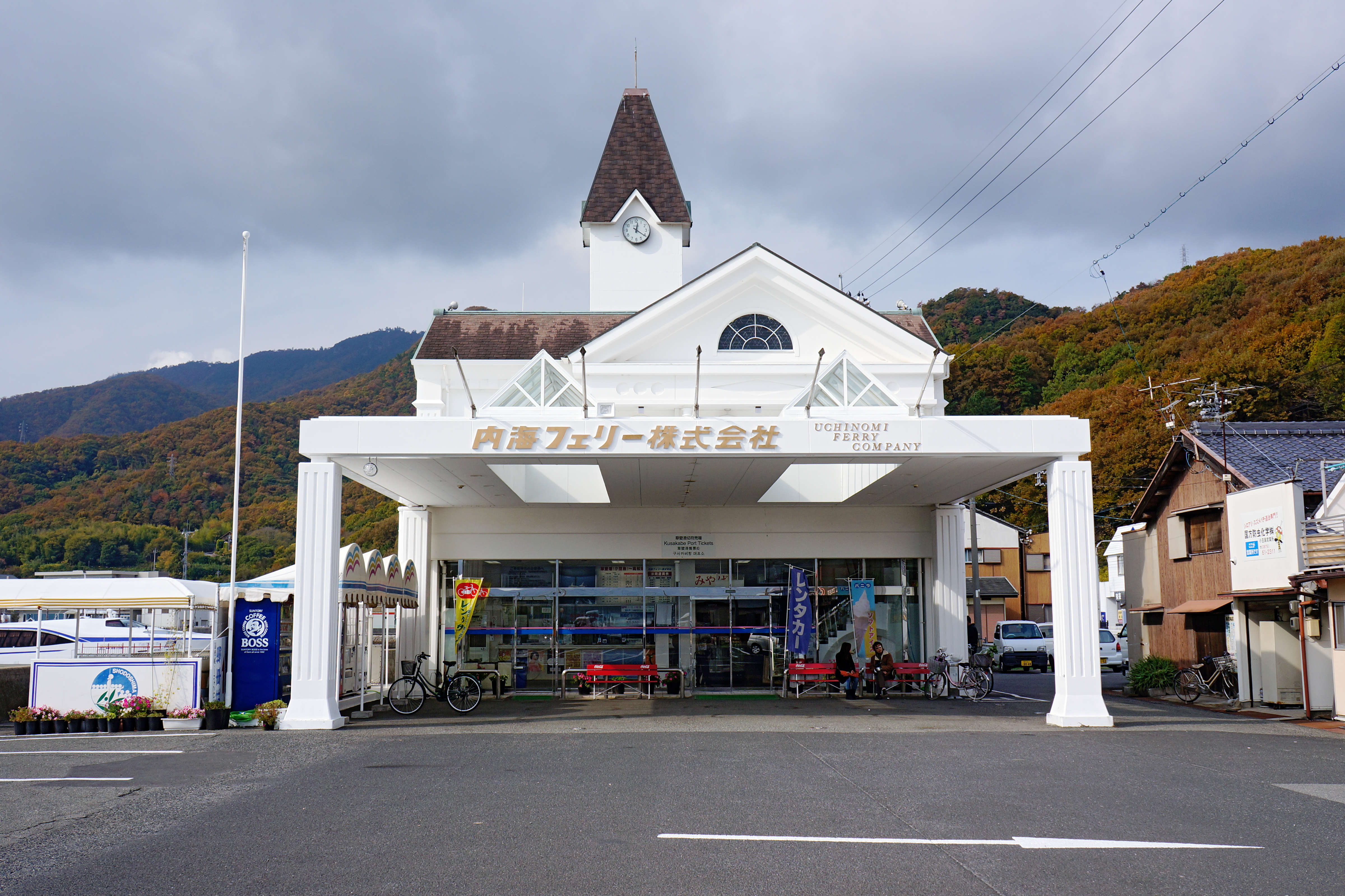 Kusakabe Port of Shodo Island in Shodoshima, Kagawa prefecture, Japan